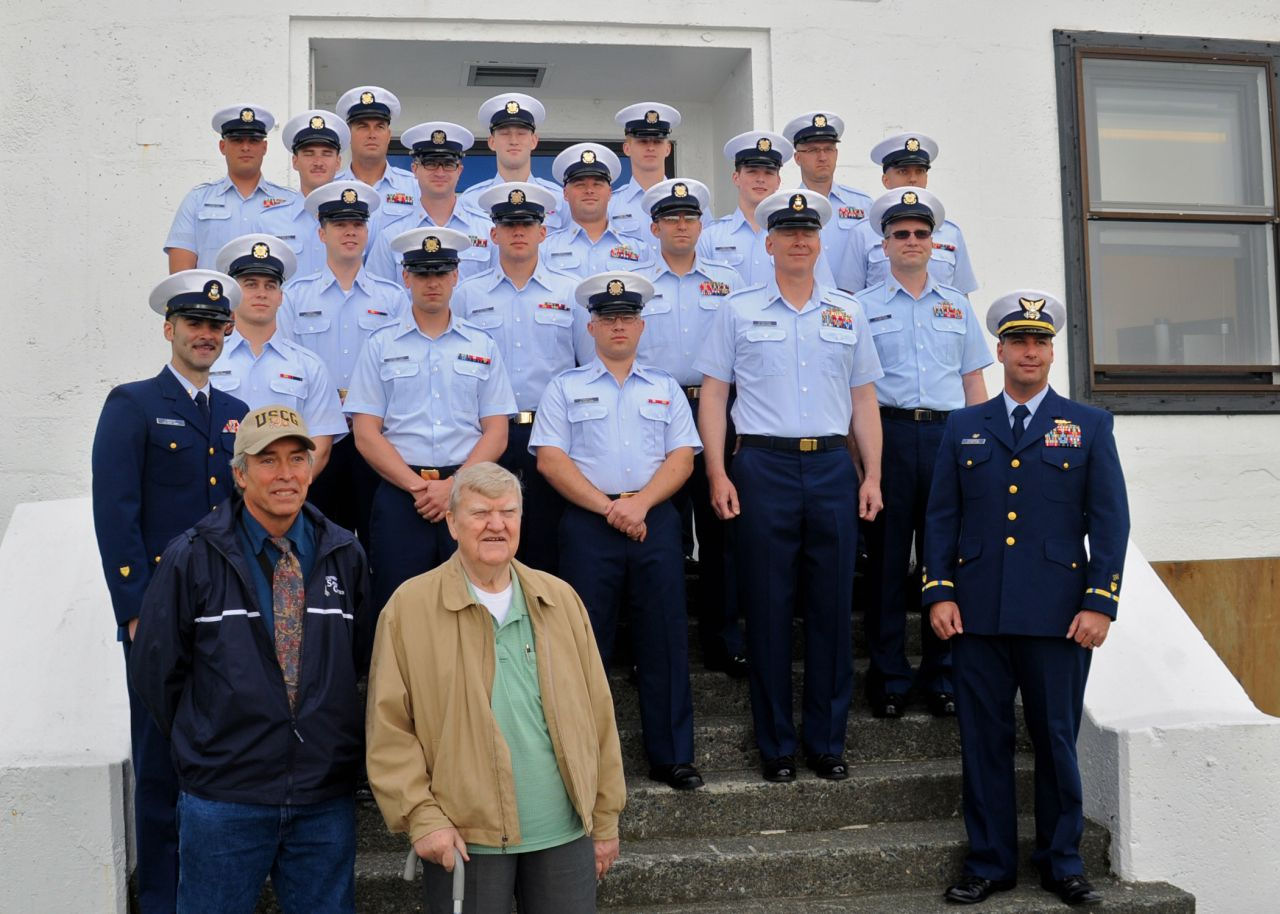 ATTU ISLAND, Alaska - The final 20 man crew of Loran Station Attu stand with veterans Ron Caswell (left) and Don Funk (right) atop the steps of the desommissioned Loran C station at Massacre Bay Aug. 27, 2010. The Loran signal operated for 66 years on Attu Island. U.S. Coast Guard photos by Petty Officer 1st Class Sara Francis.